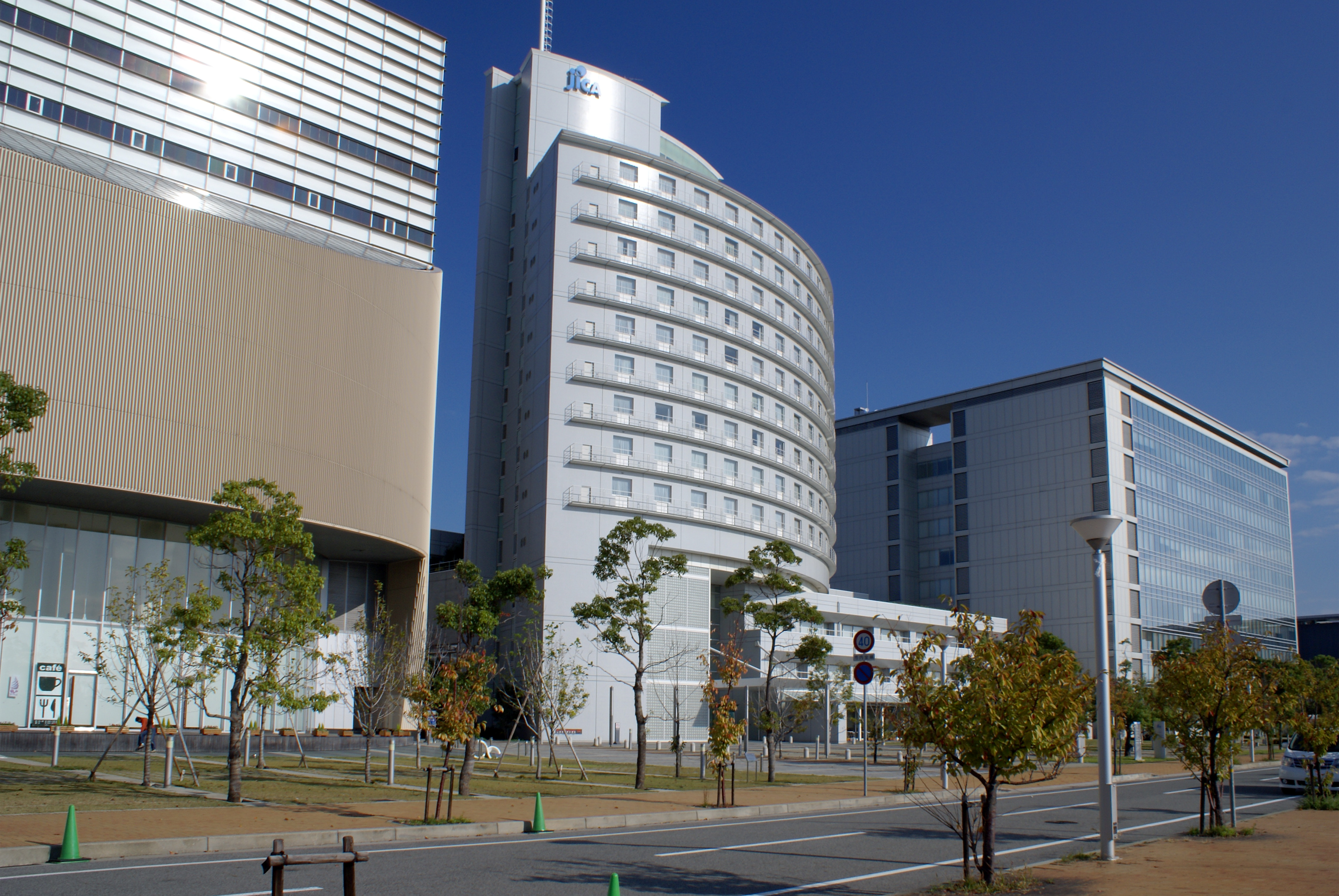 HAT Kobe in Kobe, Hyogo prefecture, Japan